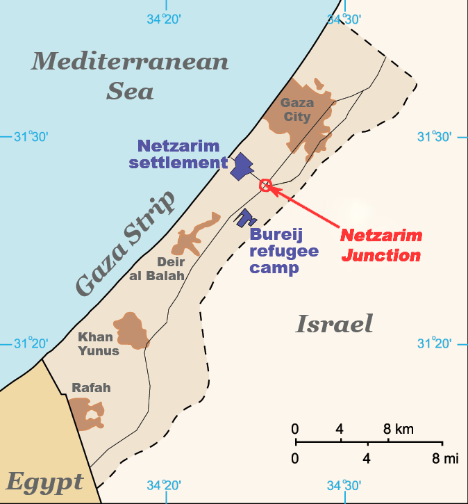 Map of the Gaza Strip indicating the locations of Bureij refugee camp, the former Netzarim settlement and the Netzarim Junction. Based on :Image:Gaza Strip map blank.svg.